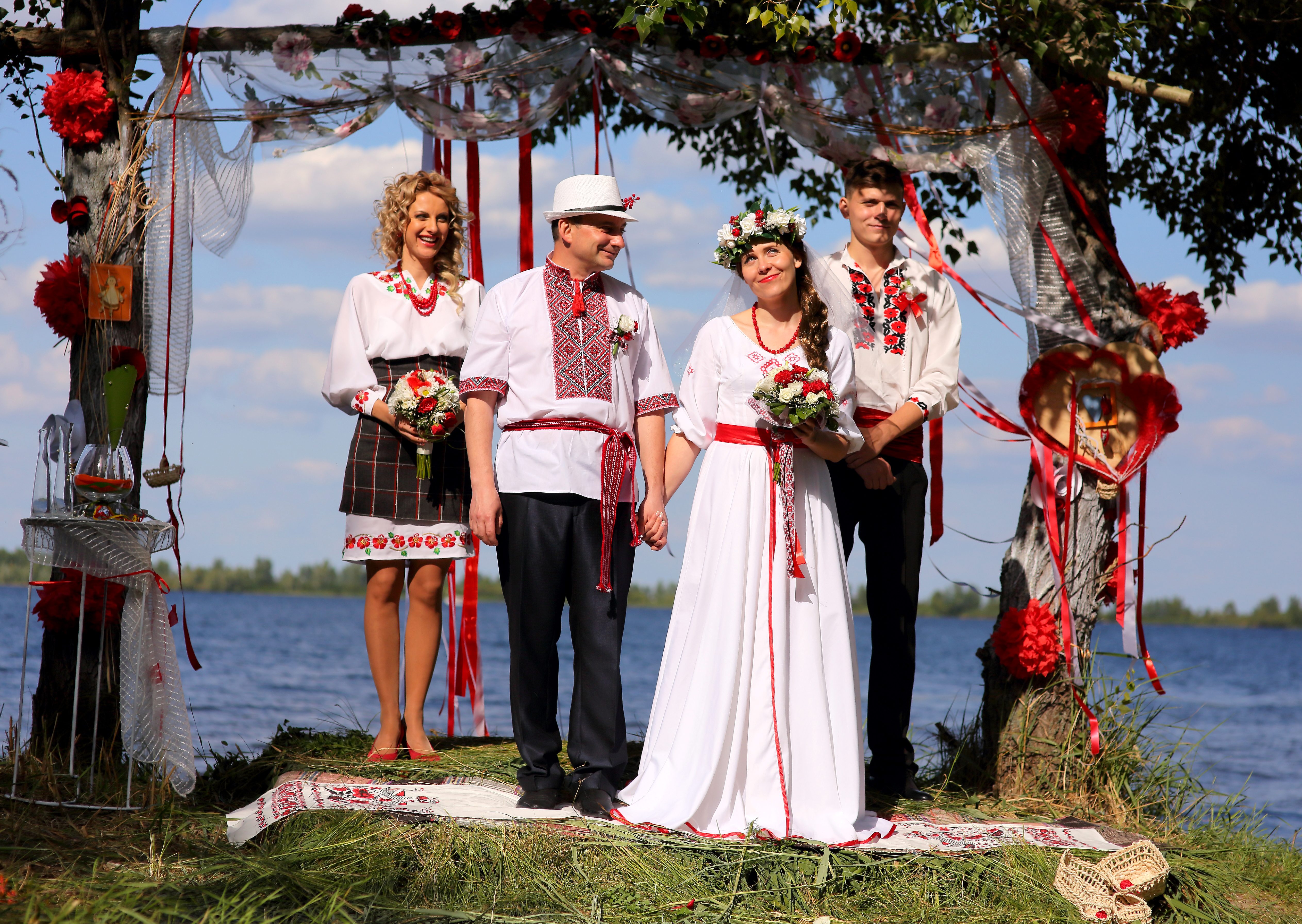 Wedding. Ukraine national style, shot made with Canon 6D and this 85mm lens